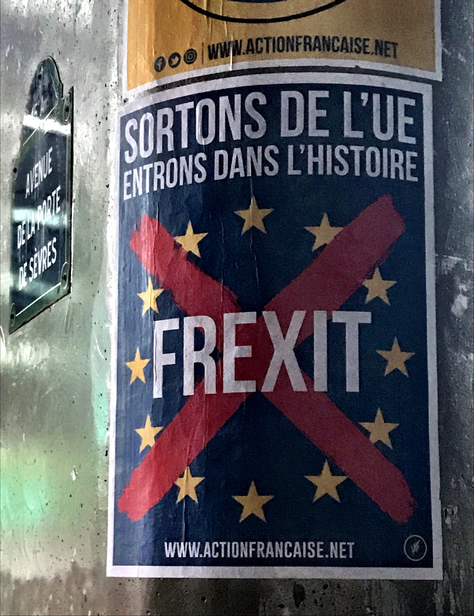 Mural add for the Frexit of « Action Française », seen in Paris 15e, July 8th, 2018